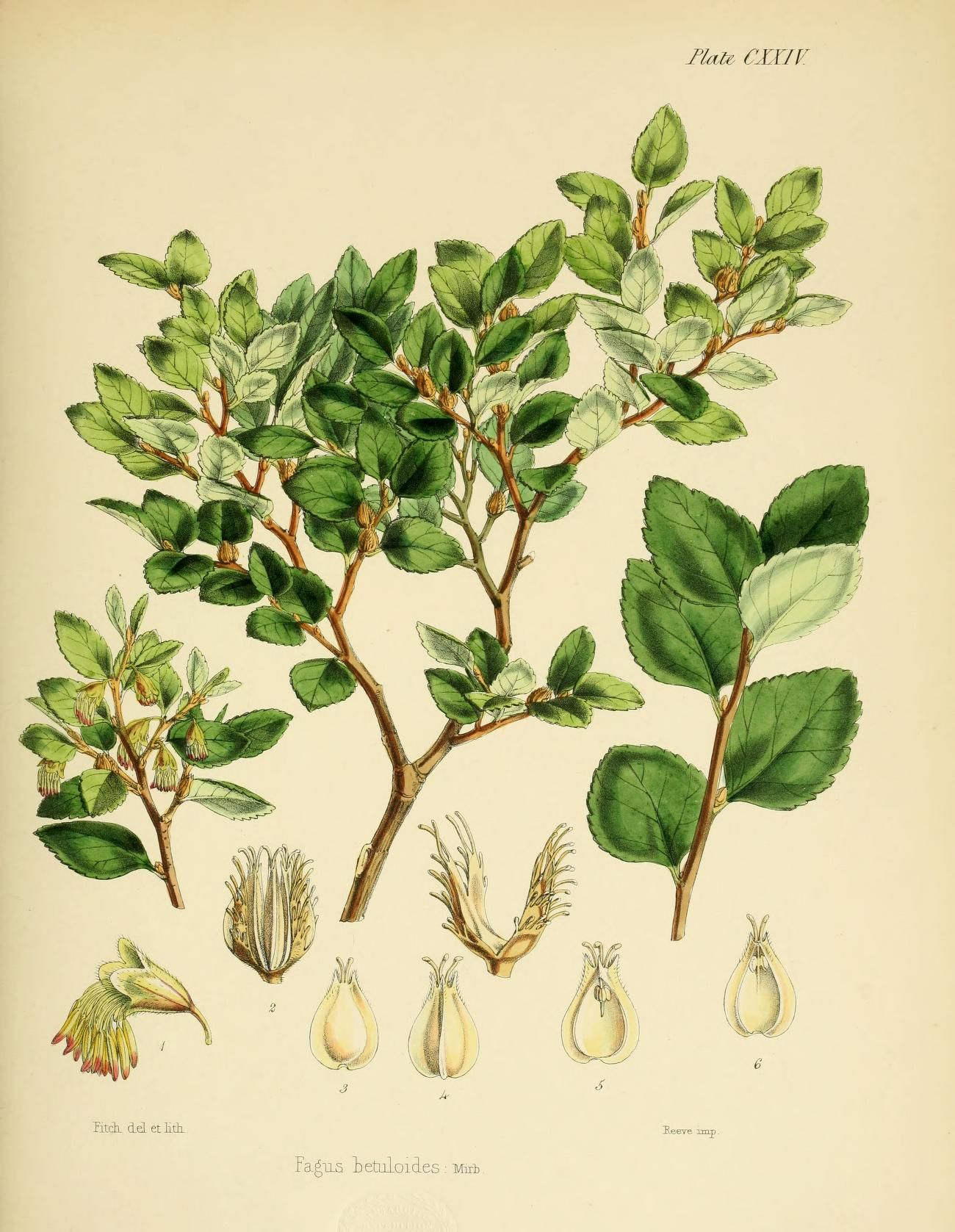 jpg of Plate CXXIV of Hooker's Flora Antarctica. Fagus betuloides Mirb.